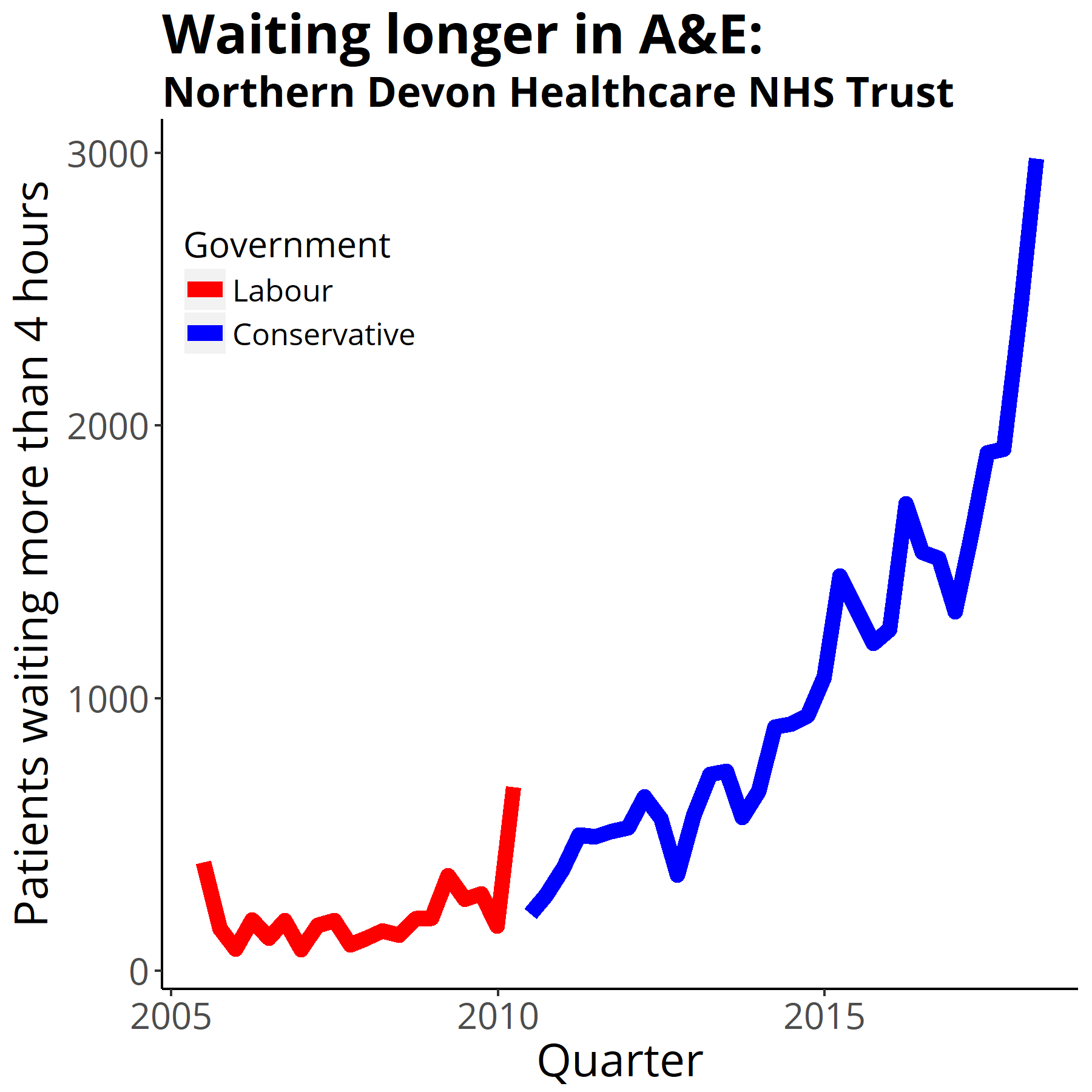 Four-hour target in the emergency department quarterly figures from NHS England Data from